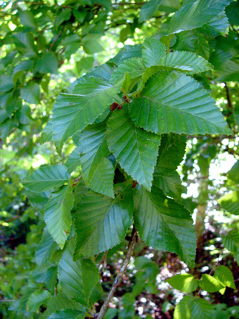 Plant Betula fargesii from Sichuan (China).